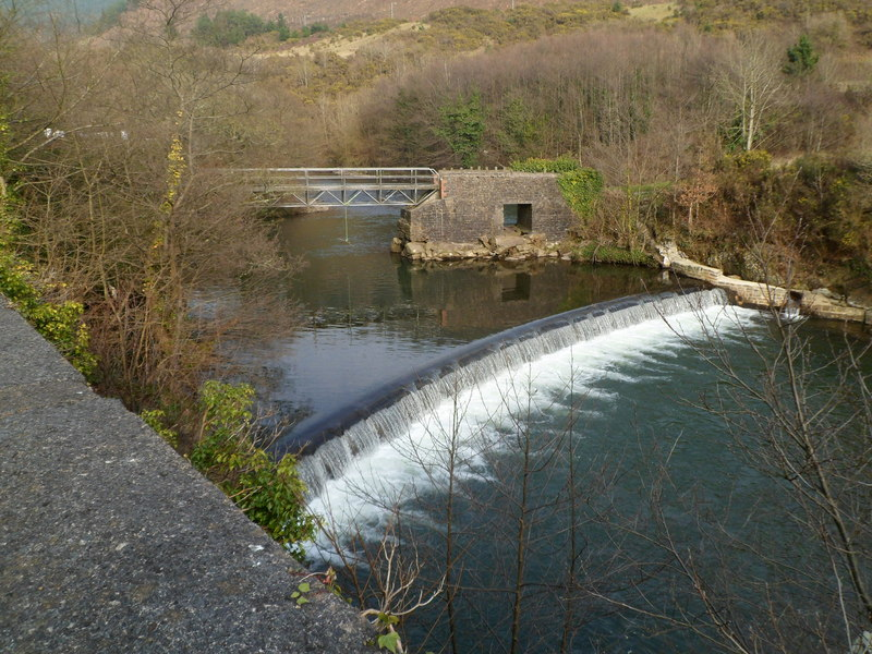 Weir and footbridge across the Afon Afan, Cwmavon. The river is 25 metres wide here, in the NE of Cwmavon.